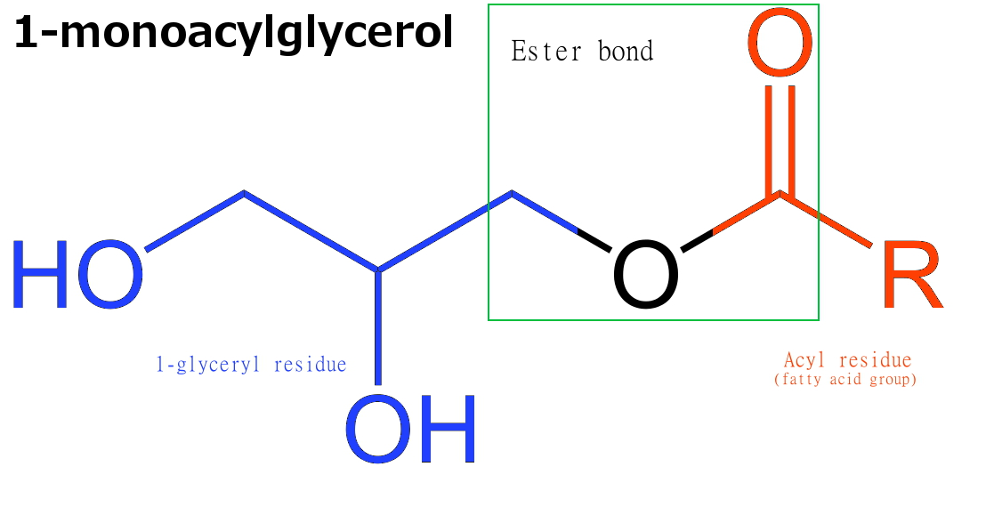 1-monoacylglycerol molecular structure. Annotated and colour-coded version of File:Monoacylglycerin.svg